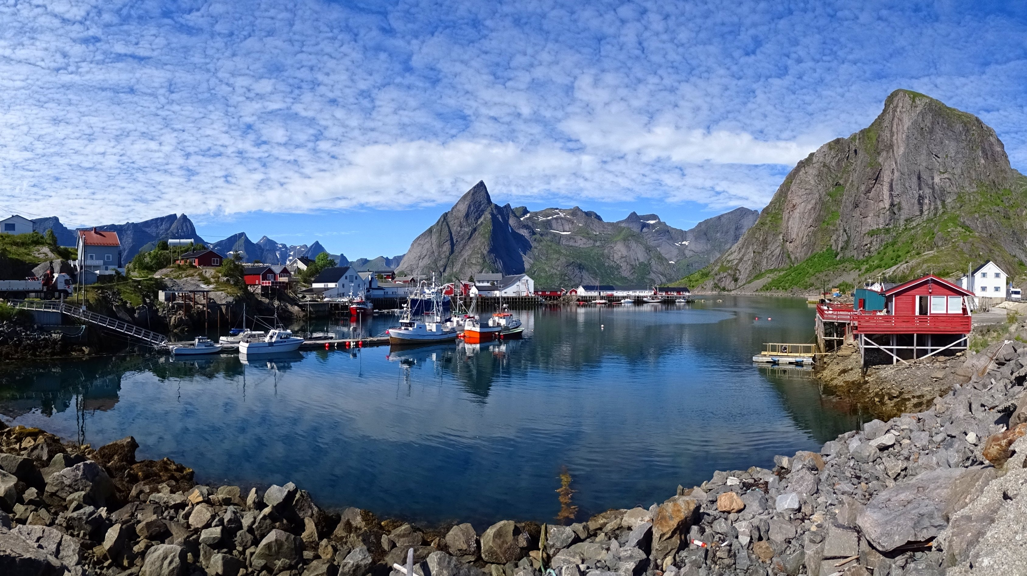 The port of Hamnøy with